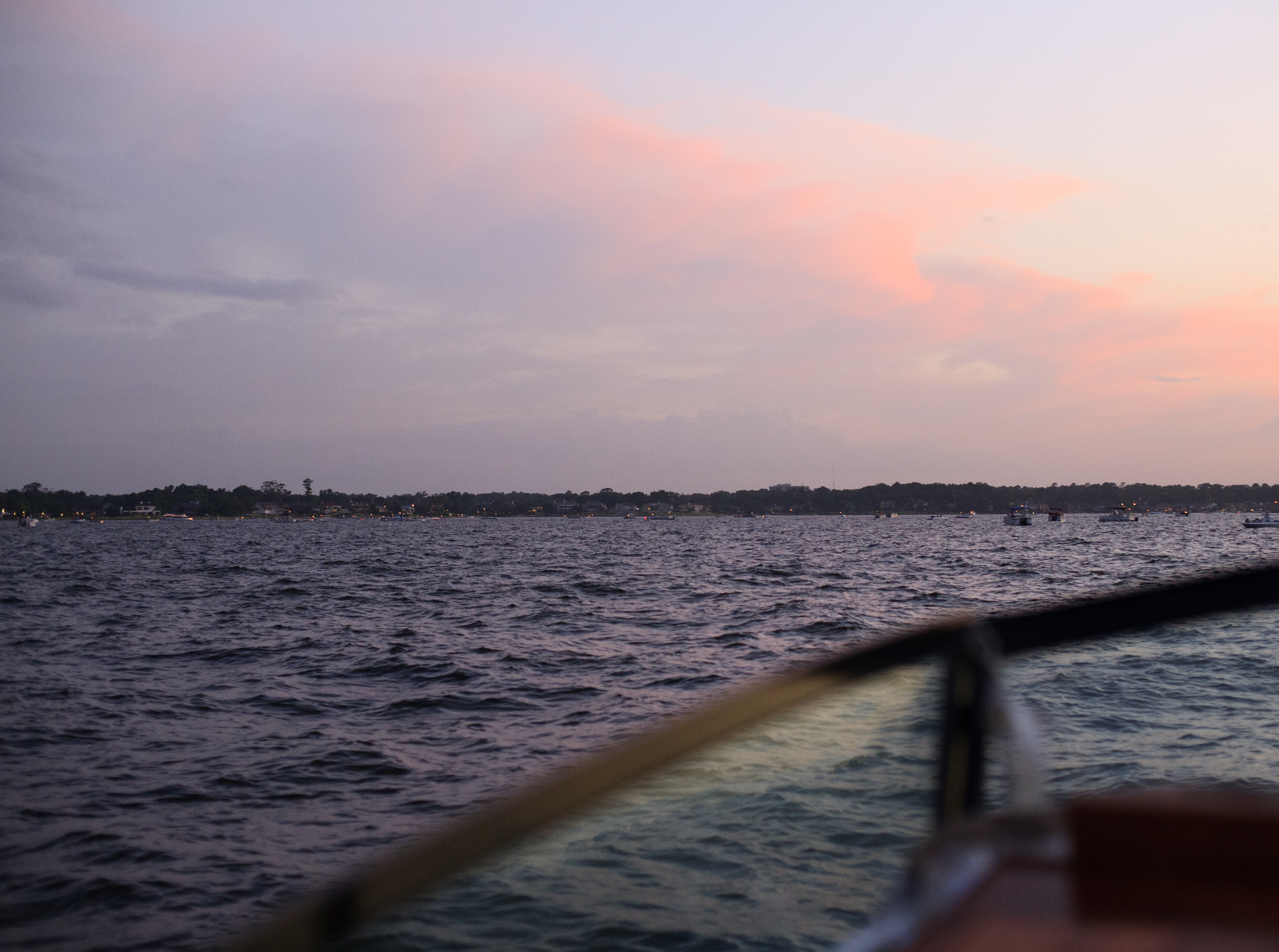 Lake Conroe, as seen from the water on July 4, 2008.